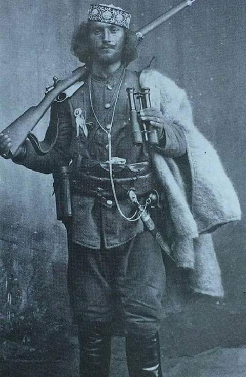 Cerciz Topulli in a rare picture